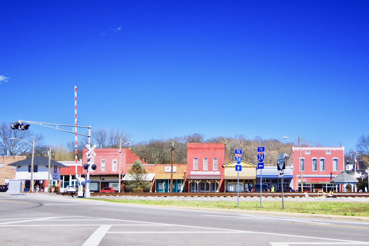 Businesses in downtown Wartrace, Tennessee, United States.